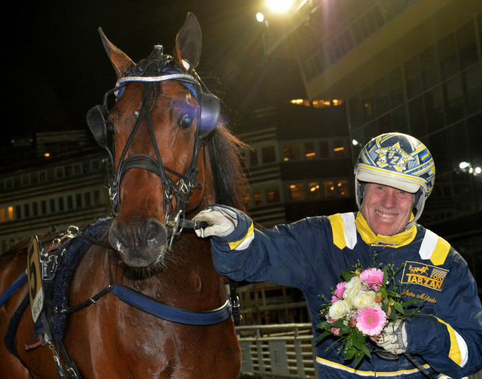 Trotter Volstead with Stefan Melander.